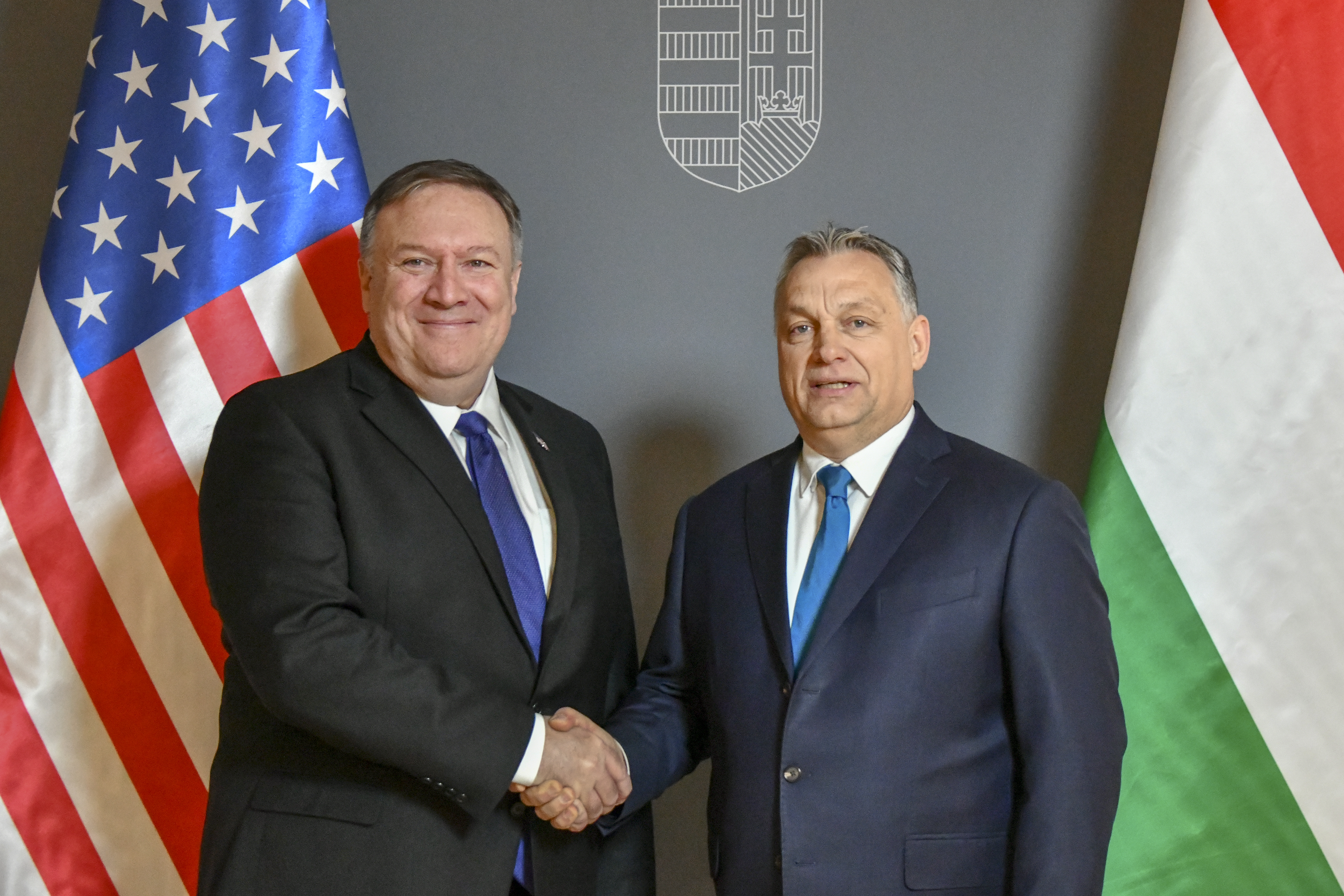 U.S. Secretary of State Michael R. Pompeo meets with Hungarian Prime Minister Viktor Orban in Budapest, Hungary on February 11, 2019. [State Department photo by Ron Przysucha/ Public Domain]